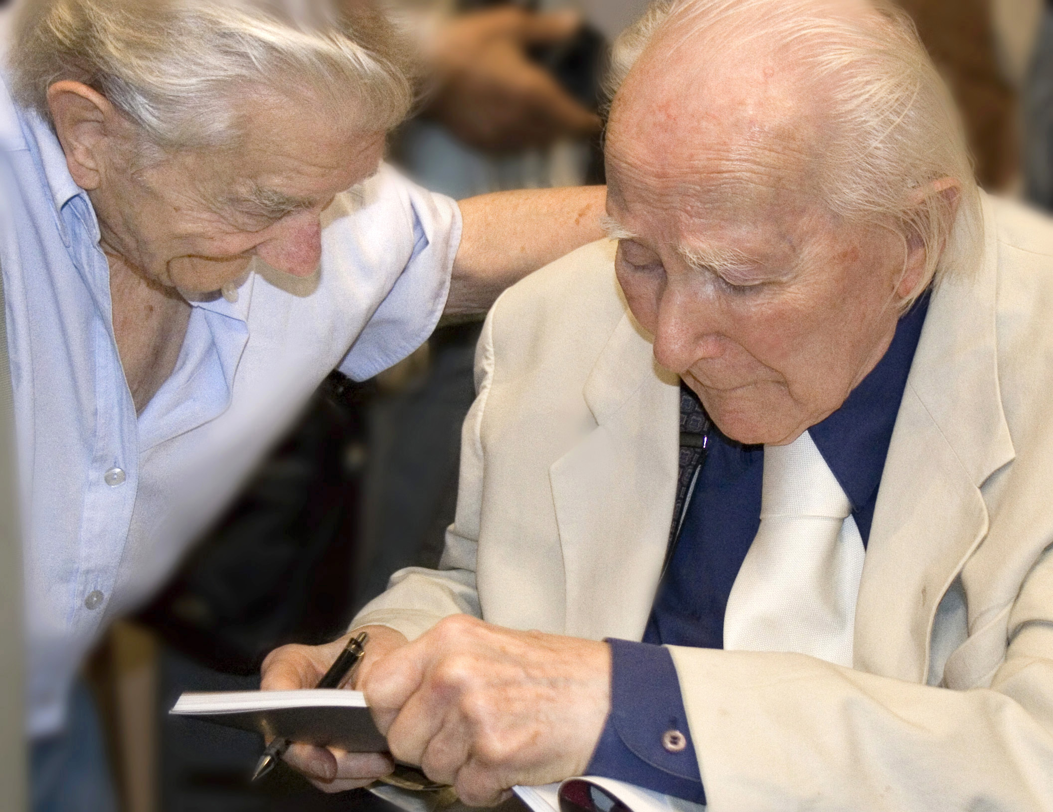 Oscar Papp and Tamas Lossonczy two Hungarian painter - 12. august. 2009. (Thomas dedicated his book Oscar, Thomas celebrated on this day 105 (!) Birthday)